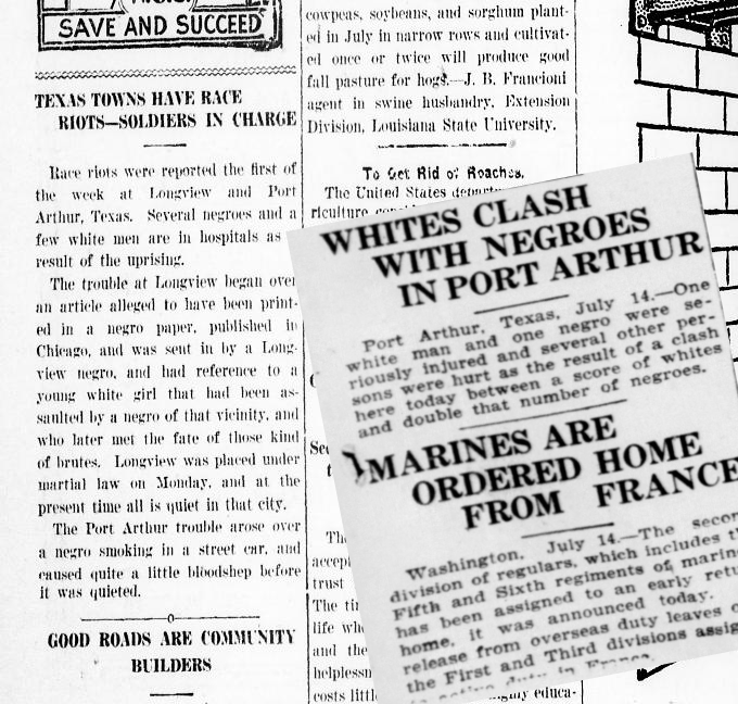 News coverage of the Port Arthur Riots 1919